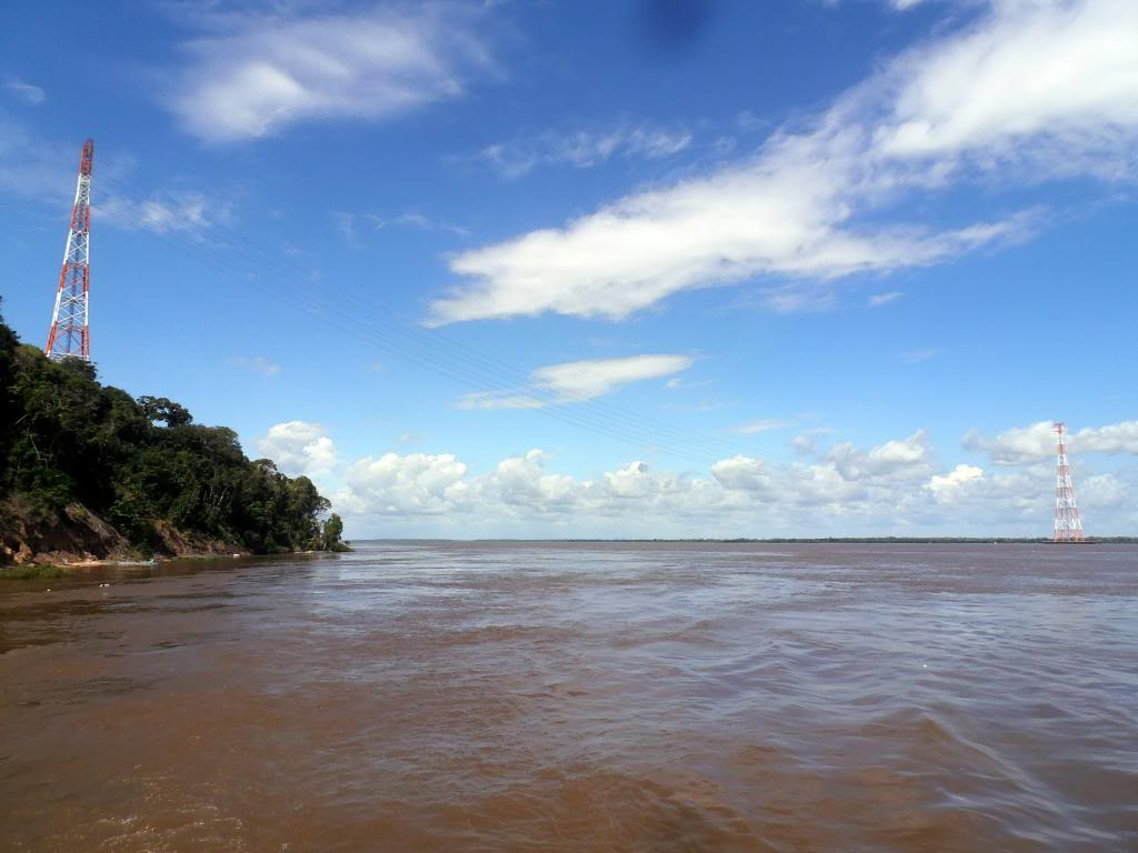 Torre 241 sobre o morro (a esquerda) e torre 238 (a direita) após serem concluídas